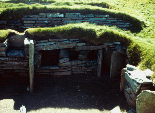 Knap of Howar, Papa Westray, Orkney